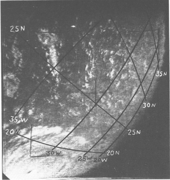 TIROS-3 photograph of Hurricane Debbie at 1913 UTC on September 7, 1961.